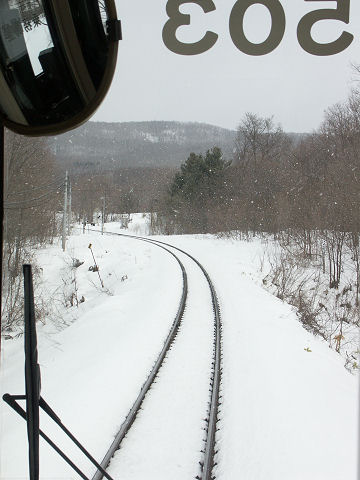 特別快速きたみが越える春の常紋峠付近 撮影日：2006年 4月08日 撮影地：JR石北本線 金華〜生田原間（北海道北見市留辺蘂町金華字常紋） 撮影者：cory Special rapid train "Kitami", passing "Jyomon-toge" (a peak named Jyomon) in early Spring. Date: 2006-04-08 (Apr 08, 2006) Place: JR-Hokkaido Sekihoku line, Kanehana - Ikutahara (Rubeshibe Kitami Hokkaido, Japan). Author: ISAKA Yoji (cory)